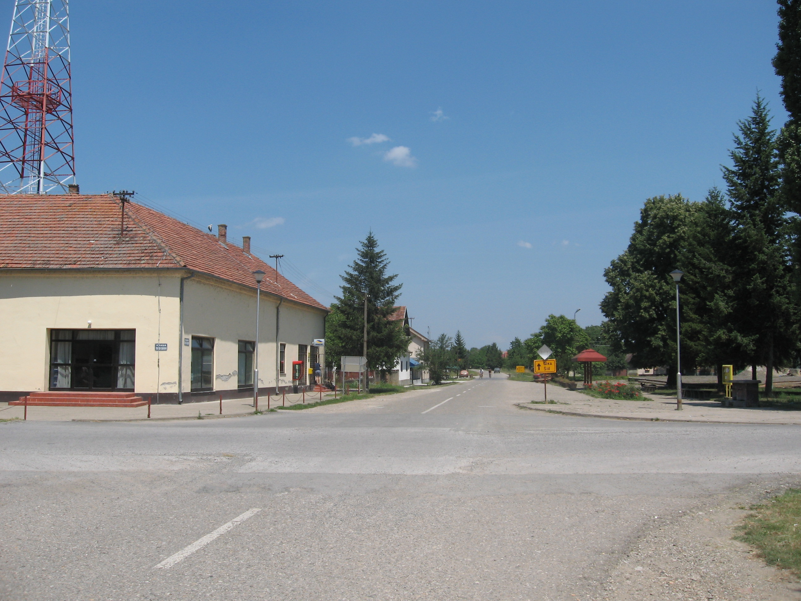 Jamena